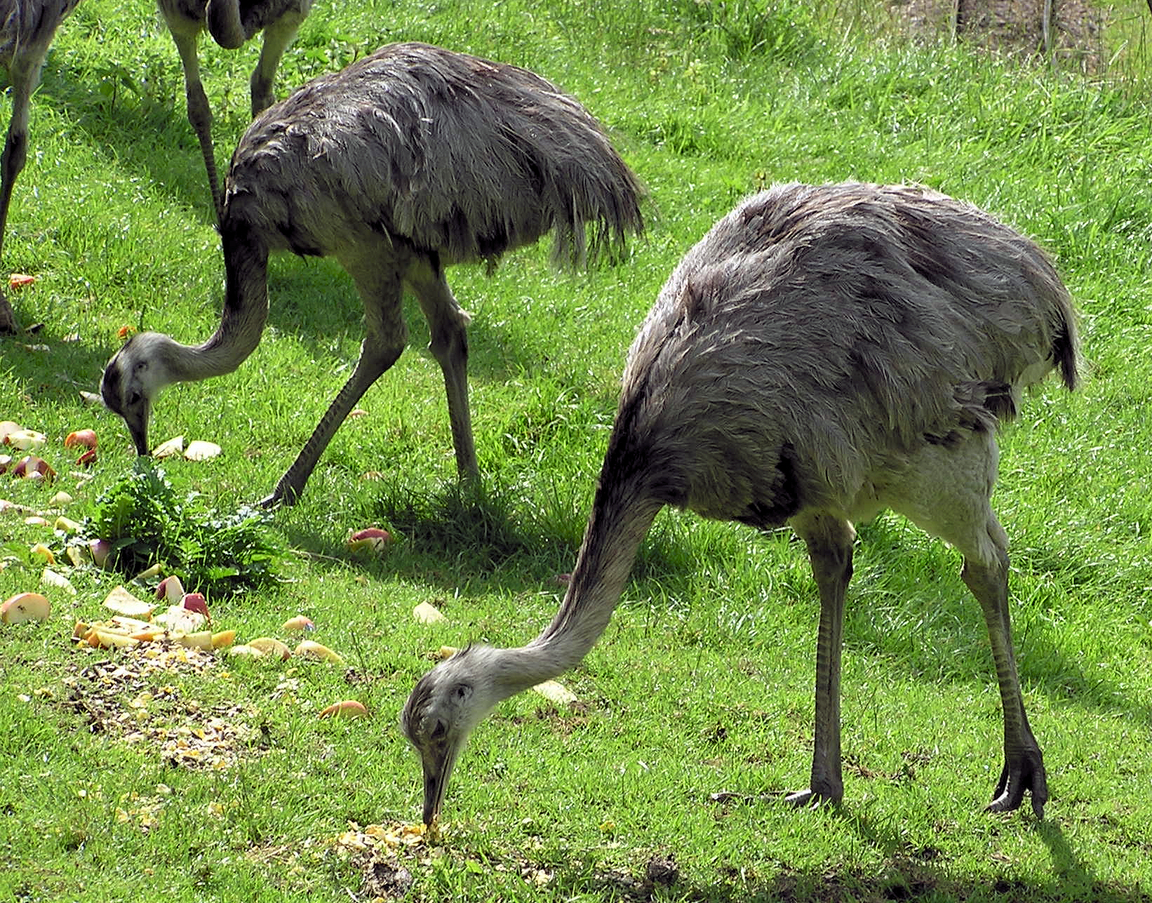 Greater Rhea Rhea americana at Cricket St Thomas Wildlife Park, Somerset, England.